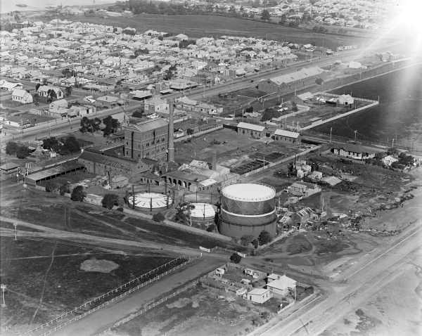 Overview of the Geelong Gas Works, North Geelong. Owned by the Geelong Gas Company. Looking south-east towards Rippleside Park, North Geelong railway station, Victoria is just behind the brick building.